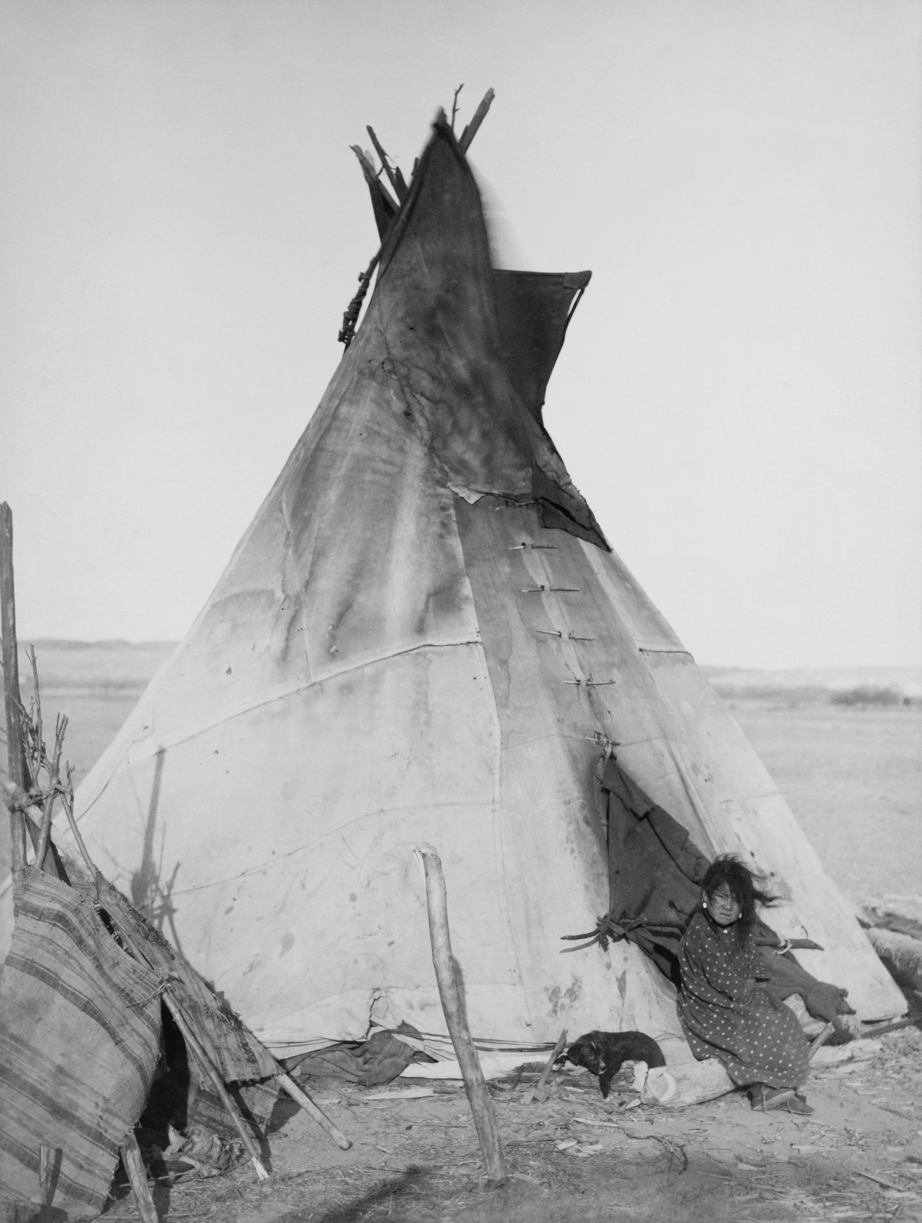 A young Oglala girl sitting in front of a tipi, with a puppy beside her, probably on or near Pine Ridge Reservation